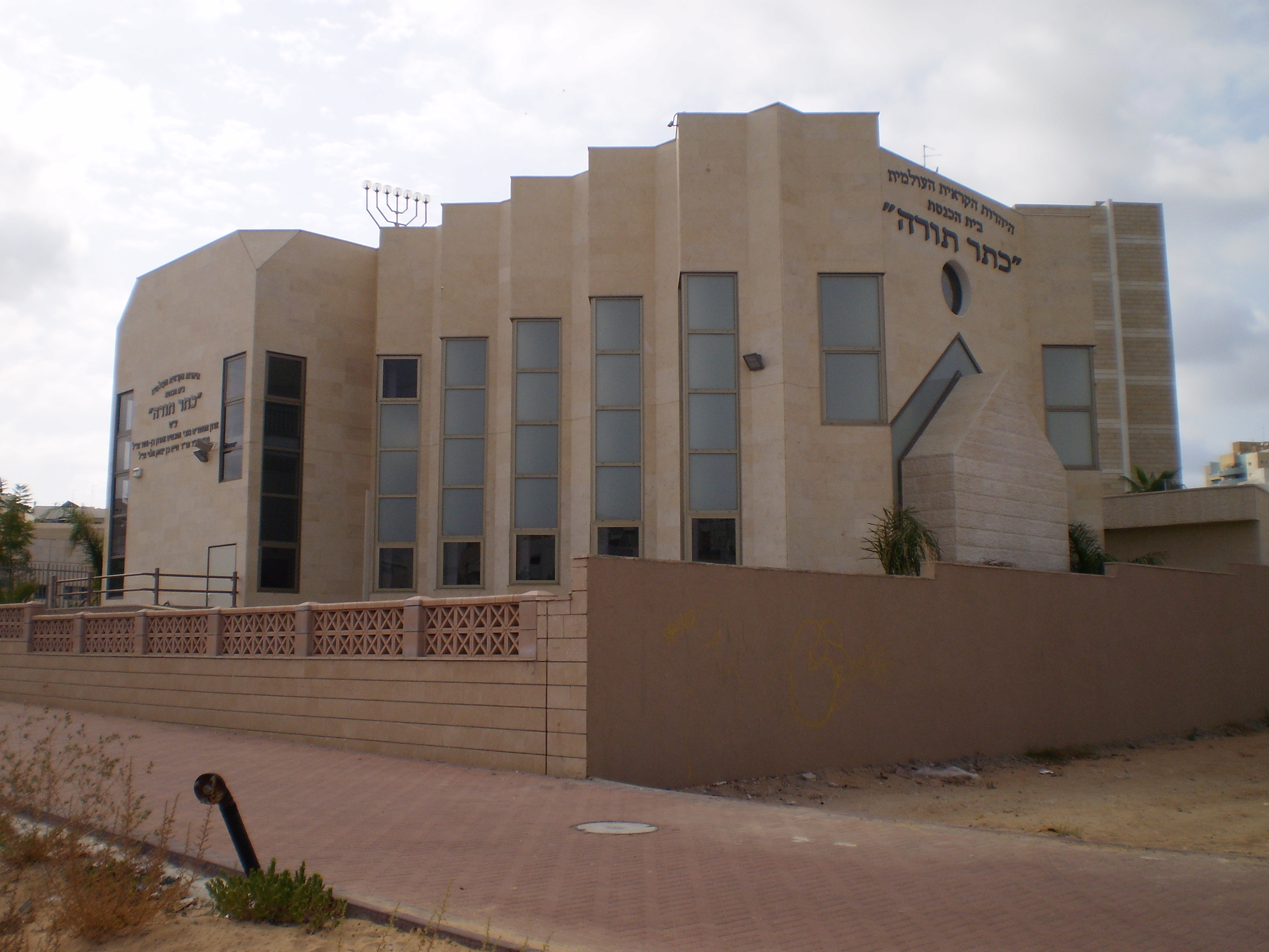 Keter Torah Karaite synagogue, Ashdod